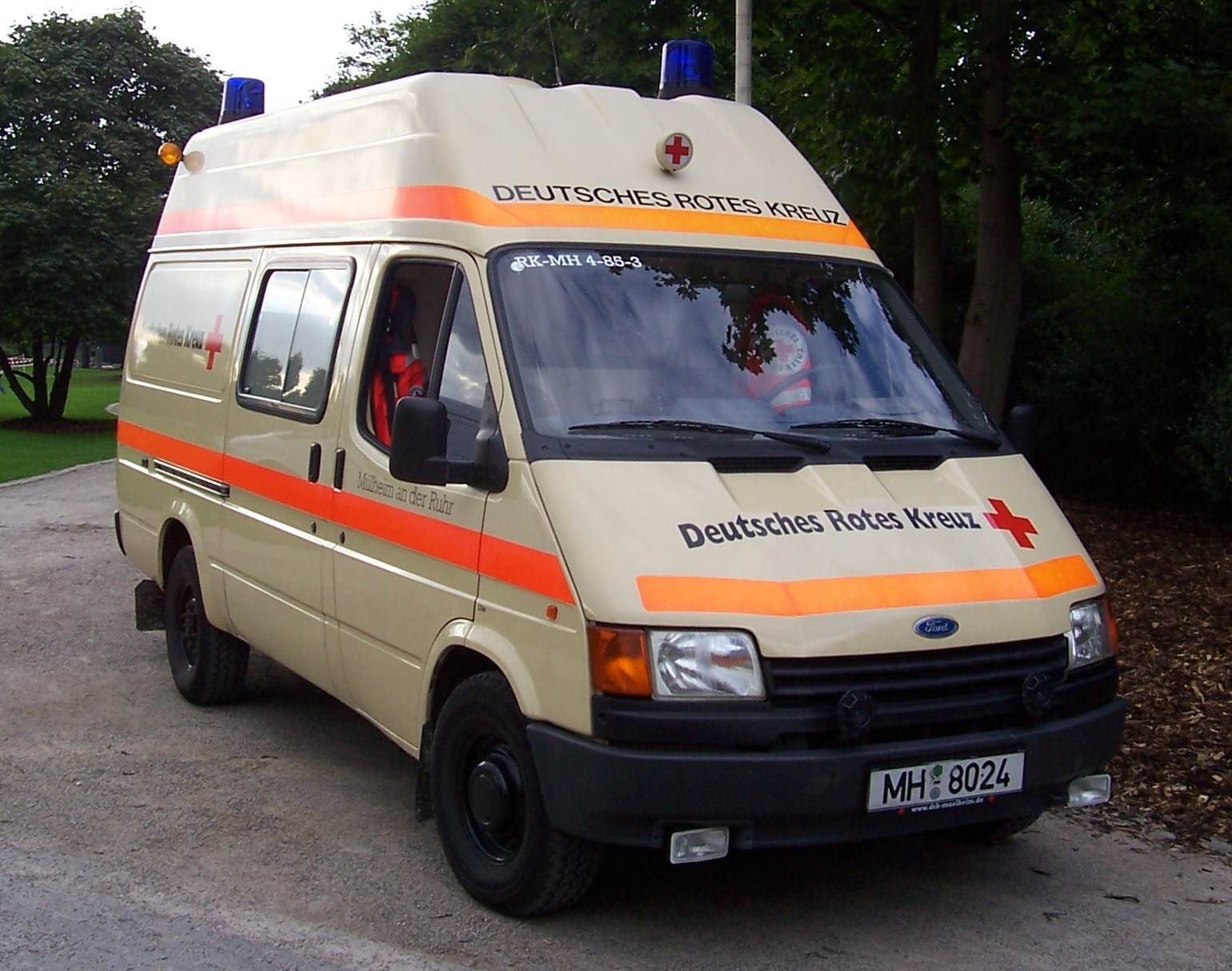 Ambulance of the German Red Cross